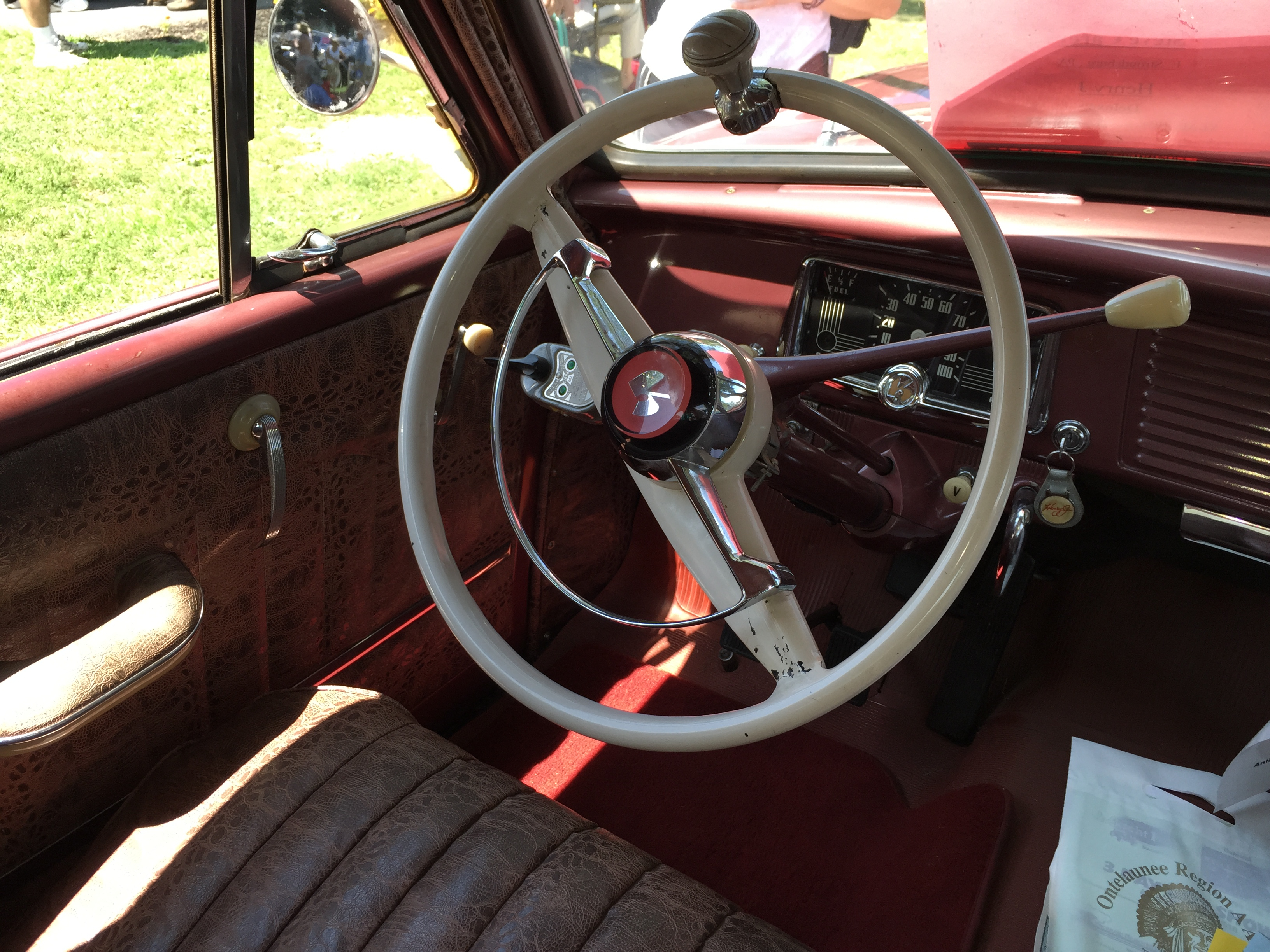 1951 Henry J automobile built by the Kaiser-Frazer Corporation. An economical four-cylinder, compact-sized two-door sedan. The steering wheel has an aftermarket Brodie knob, often called a "necker knob". Picture taken at the 52nd Annual "Das Awkscht Fescht" antique car show in Macungie, Pennsylvania.